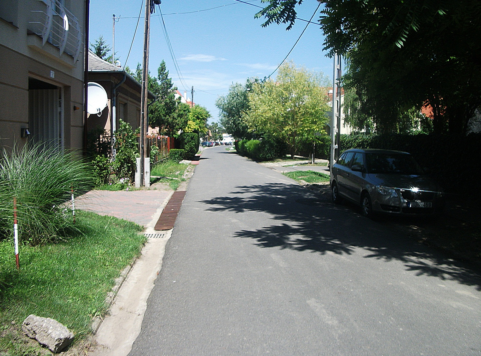 László Szabó street in Hajdúszoboszló.